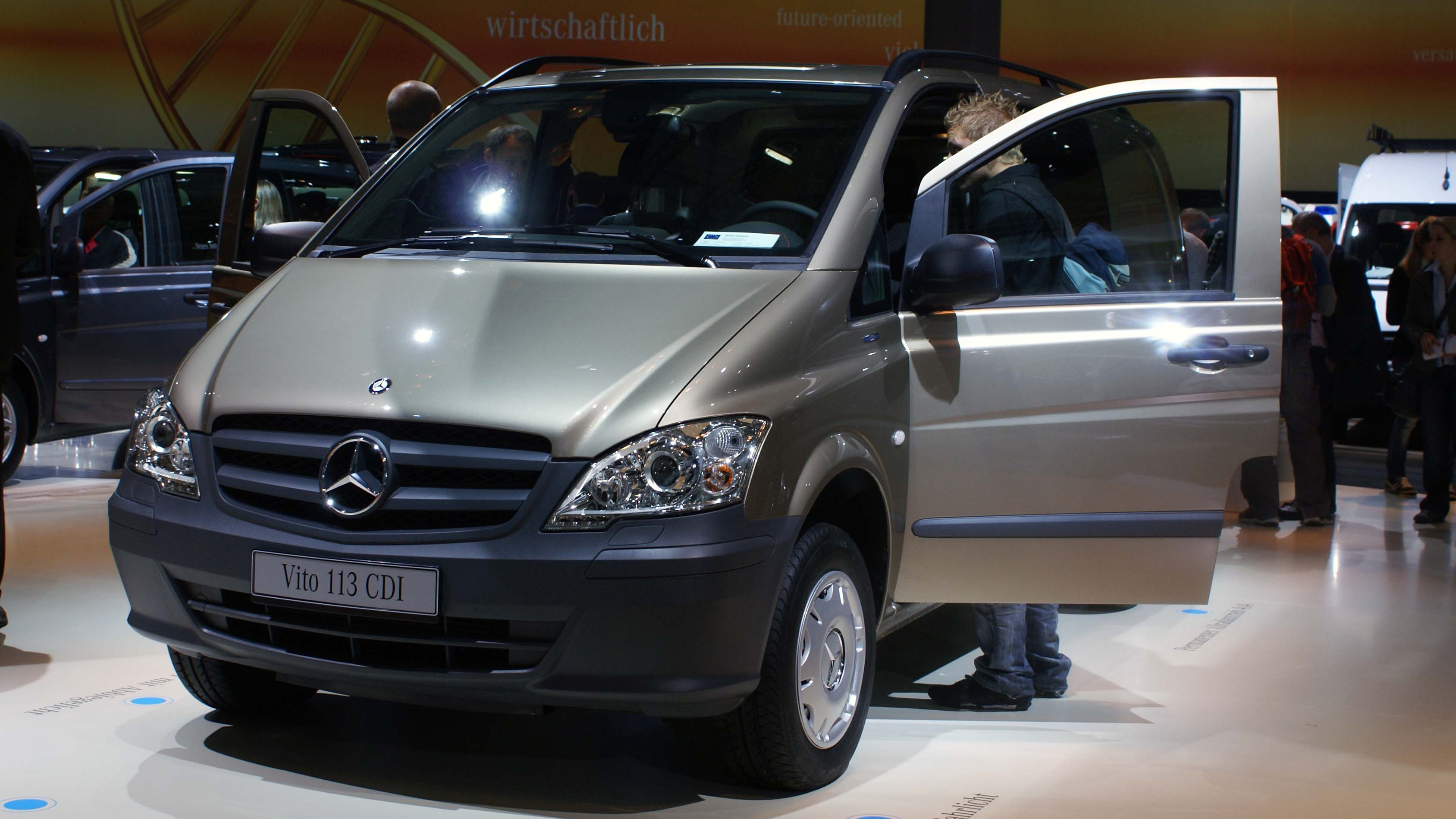 Mercedes-Benz Vito (W639 MoPf) at IAA 2010